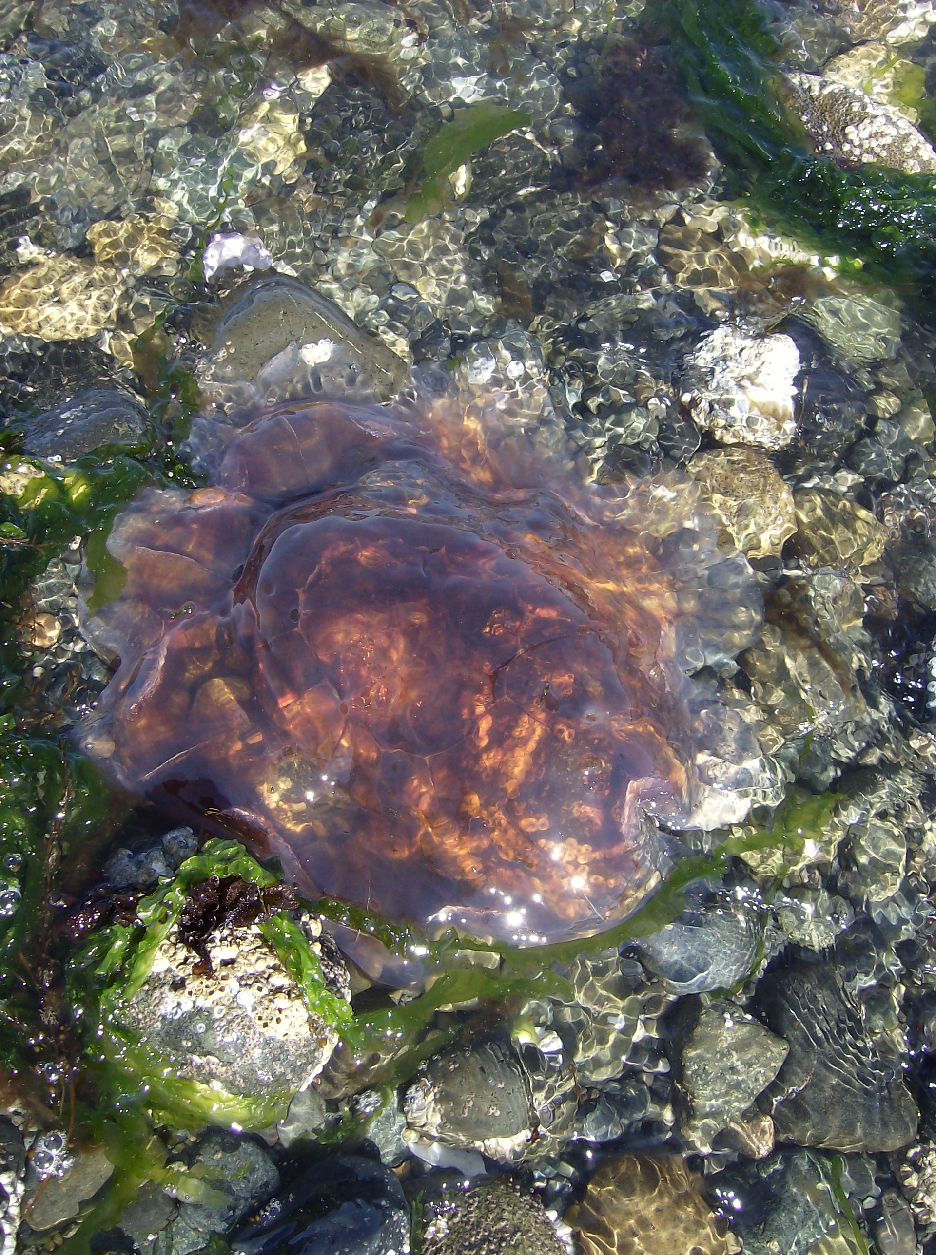 A dead Lion's Mane jelly, Cyanea capillata, washed up at the beach in Parksville, British Columbia. Taken by myself.